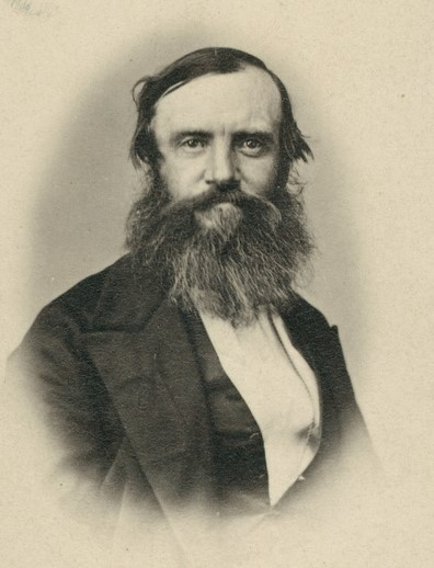 Depicted person: John McDouall Stuart – British explorer